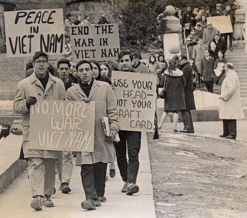 Student protesters marching down Langdon Street at the University of Wisconsin-Madison during the Vietnam War era. UW Digital Collections